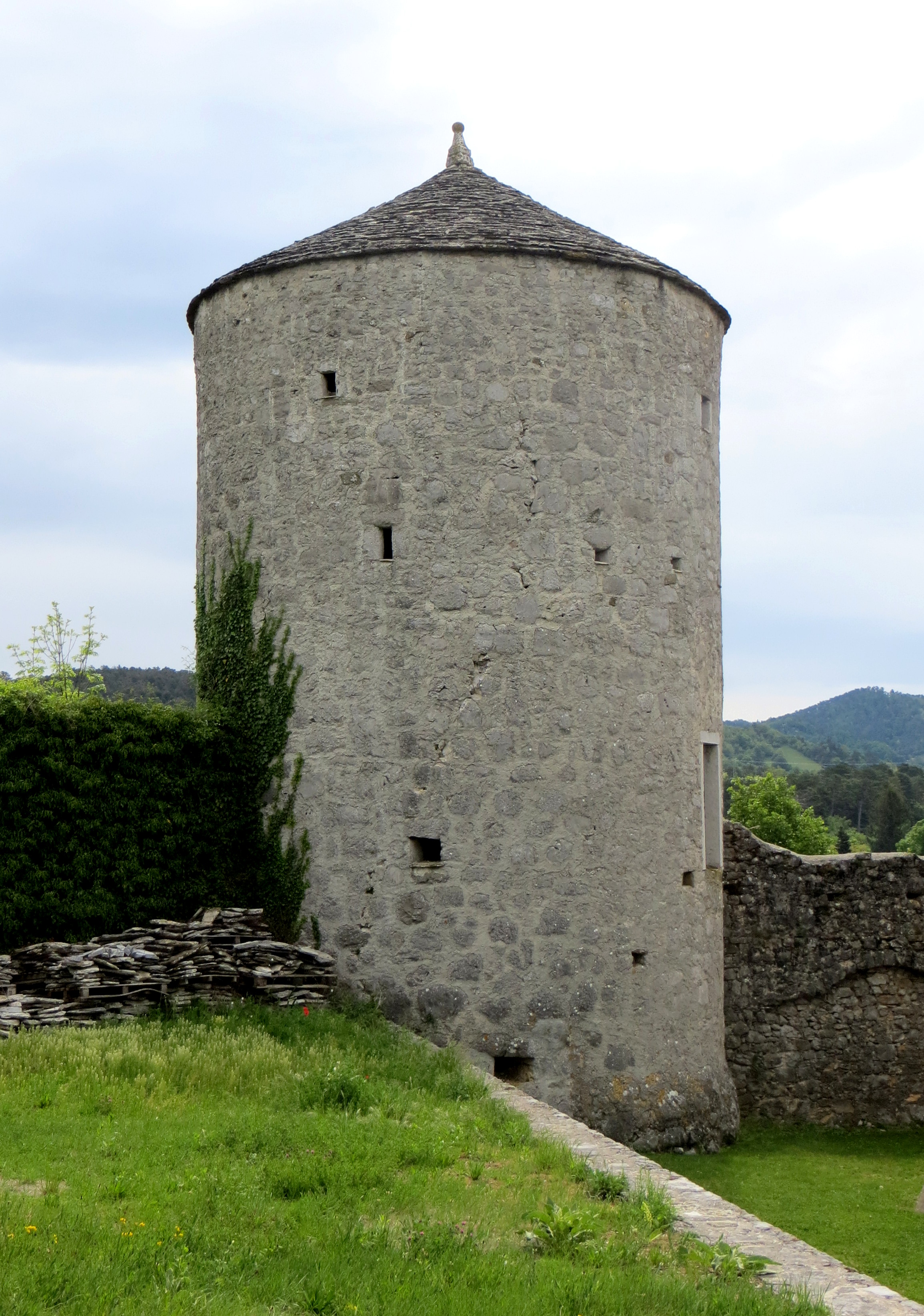 Tower at Our Lady of Sorrows Church in Dolenja Vas, Municipality of Divača, Slovenia